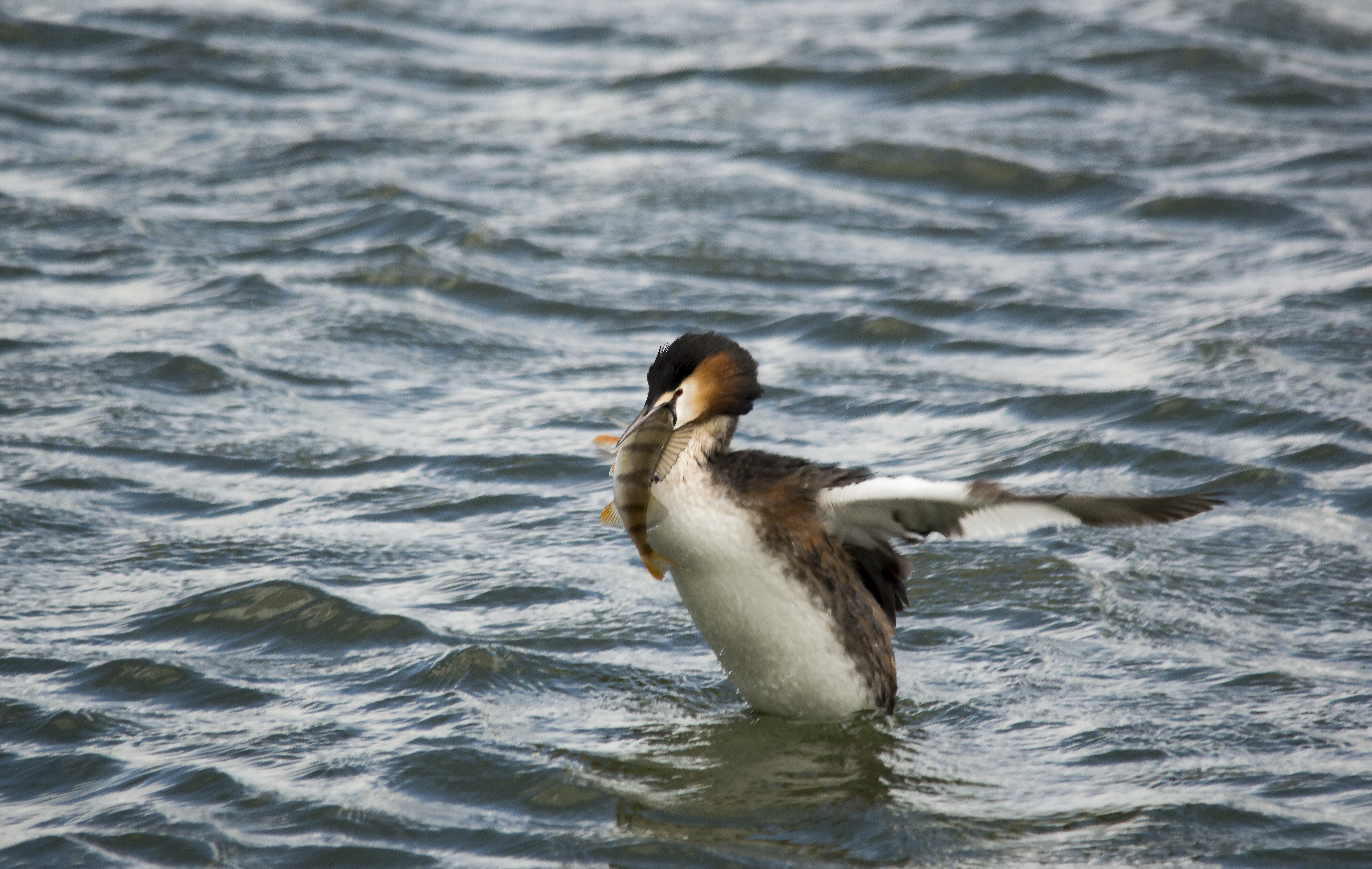 Taken at Pitsford NR. There is not many birds left on the actual NR but on the reservoir car park there is plenty of water birds and Pied Wagtails. A delightfully elegant waterbird with ornate head plumes which led to its being hunted for its feathers, almost leading to its extermination from the UK. They dive to feed and also to escape, preferring this to flying. On land they are clumsy because their feet are placed so far back on their bodies. They have an elaborate courtship display in which they rise out of the water and shake their heads. Very young grebes often ride on their parents' backs. Status: Green Population: UK Breeding: 5,300 adults UK Wintering: 23,000 birds